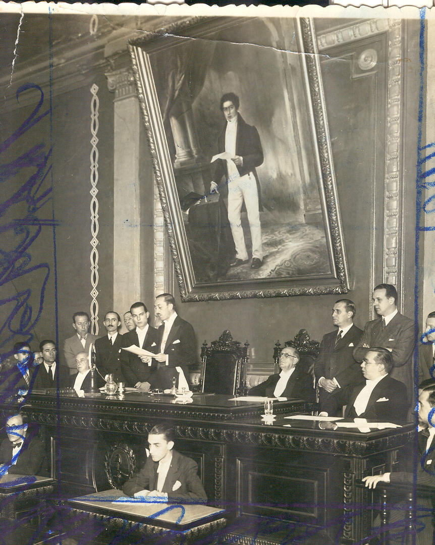 Lectura de su mensaje a la Legislatura de Tucumán, por el gobernador de Tucumán, Juan Luis Nougués. Año 1934